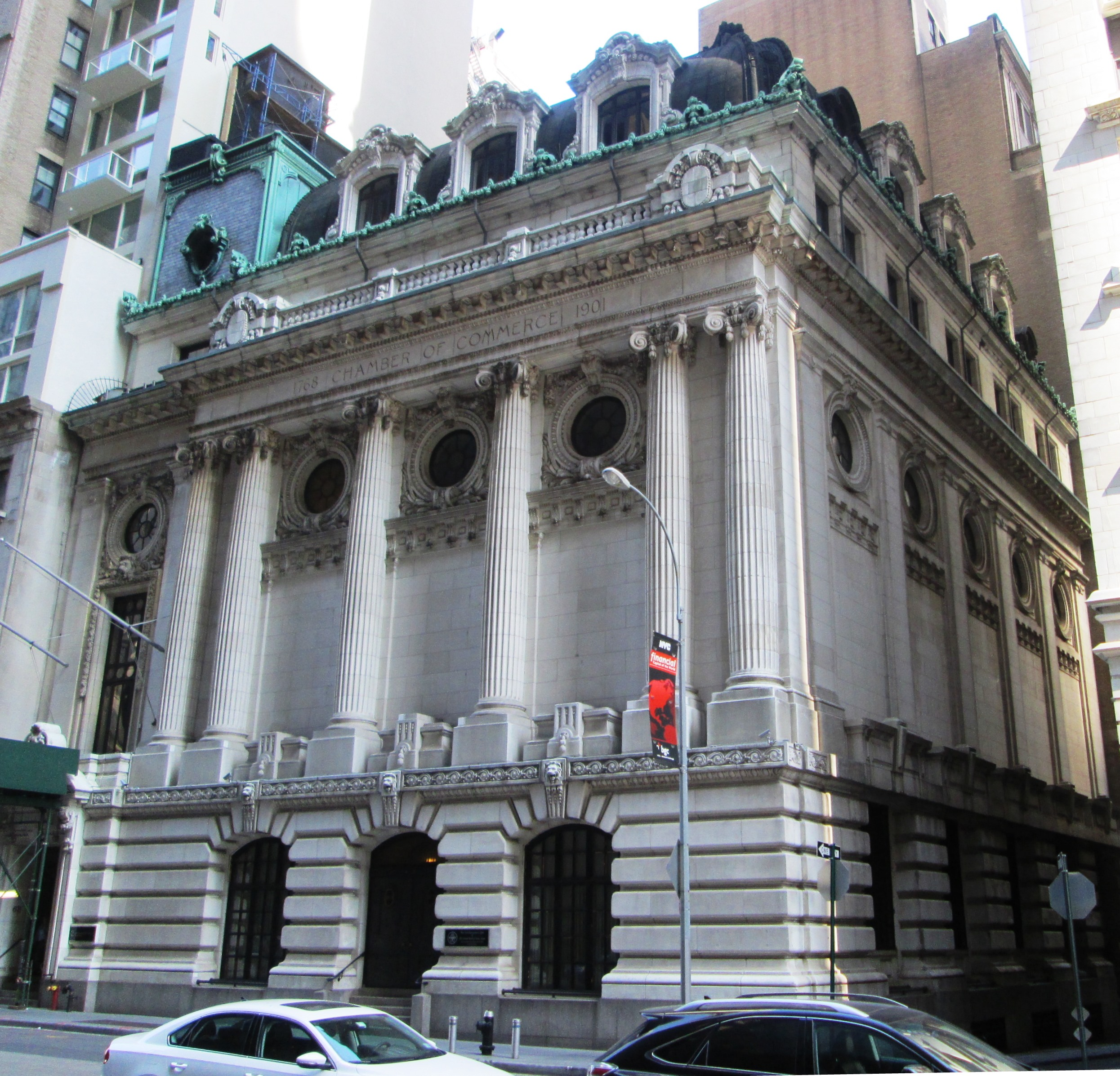 The Chamber of Commerce Building located at 65 Liberty Street between Nassau Street and Broadway in the Financial District of Manhattan, New York City was built in 1900-01 to house the Chamber of Commerce of the State of New York, which occupied it until 1980. The building was restored in 1990-91 by Haines Lundberg Waehler and became the Industrial and Commercial Bank of China.